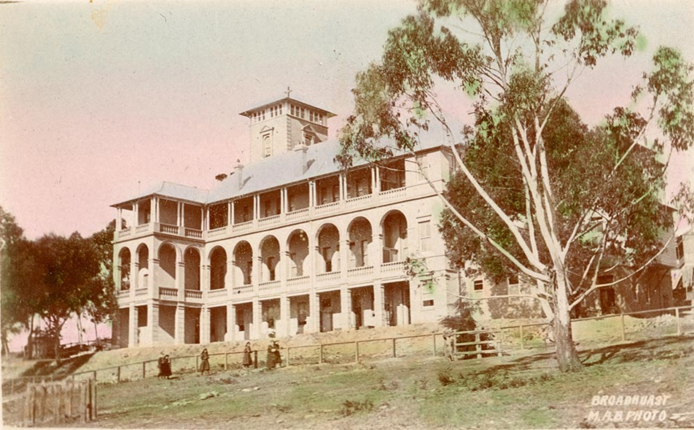 Bridal Veil Falls, Leura, in the Blue Mountains National Park, New South Wales, Australia